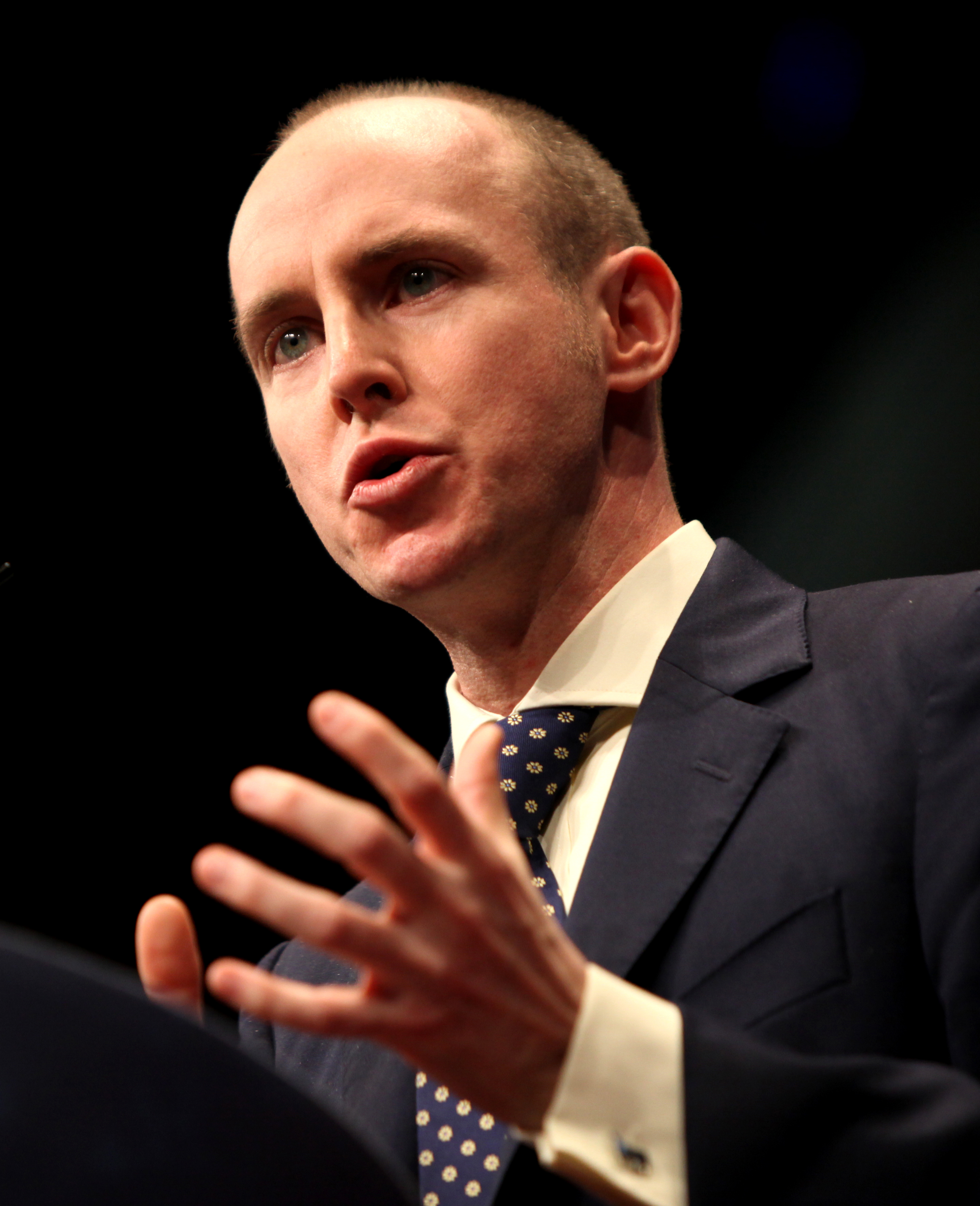 Daniel Hannan speaking at CPAC in Washington D.C. on February 11, 2012.